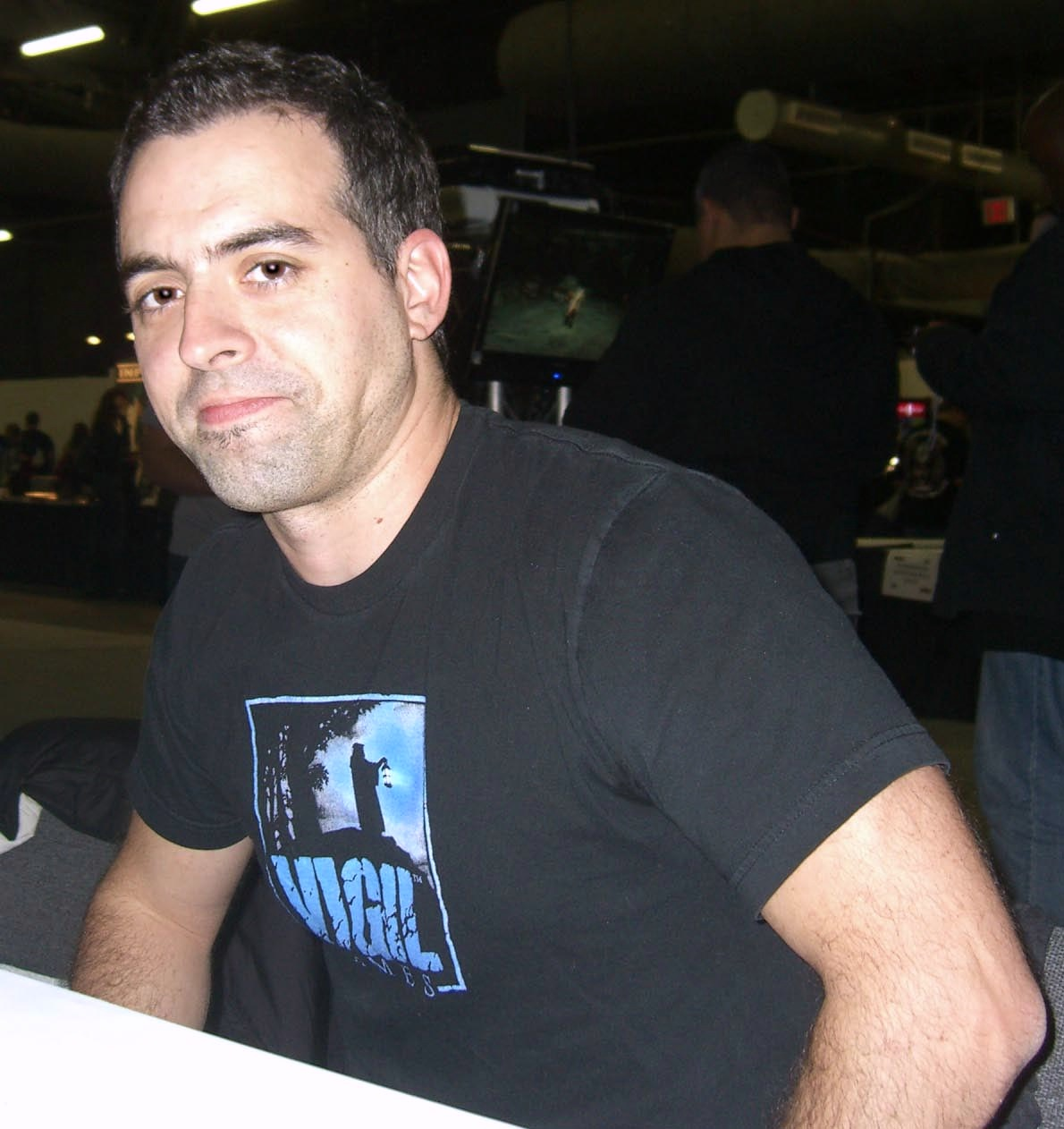 Comic book creator Joe Madureira at the Big Apple Convention in Manhattan. Photographed by Luigi Novi. This photo may only be used if the photographer is properly credited. (See Licensing information below.)